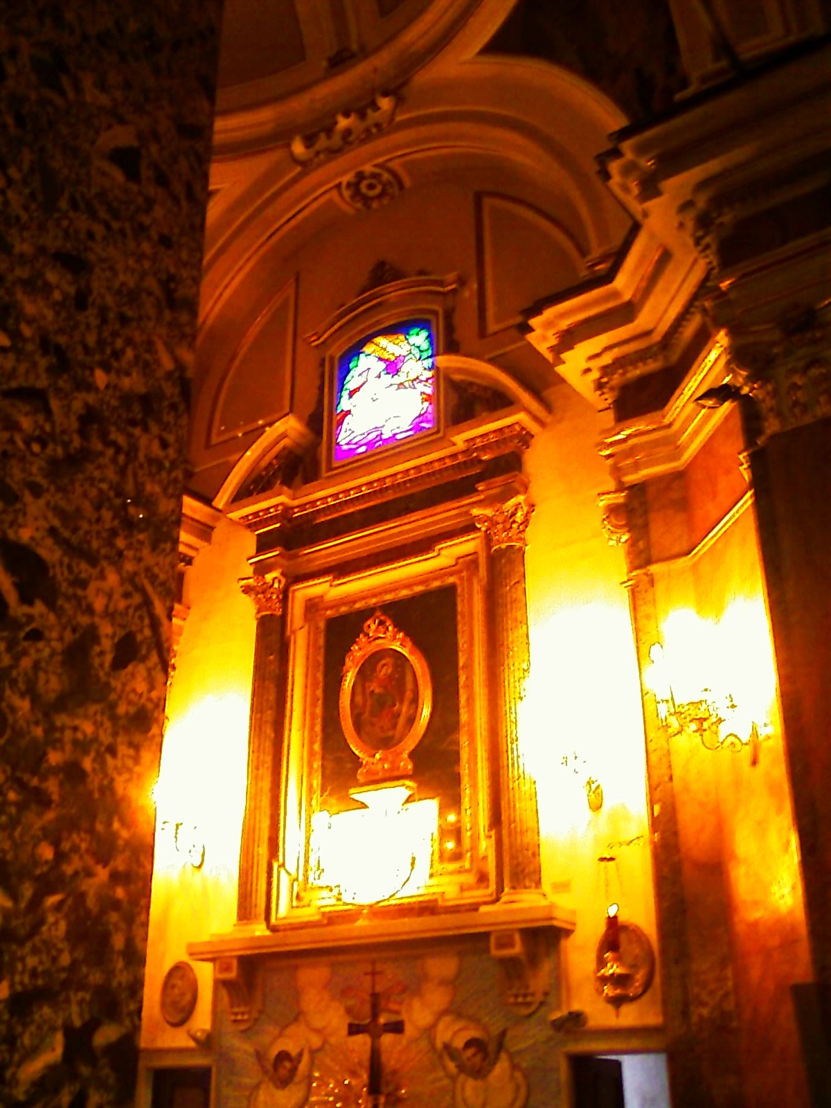 Piccola Pompei: altar